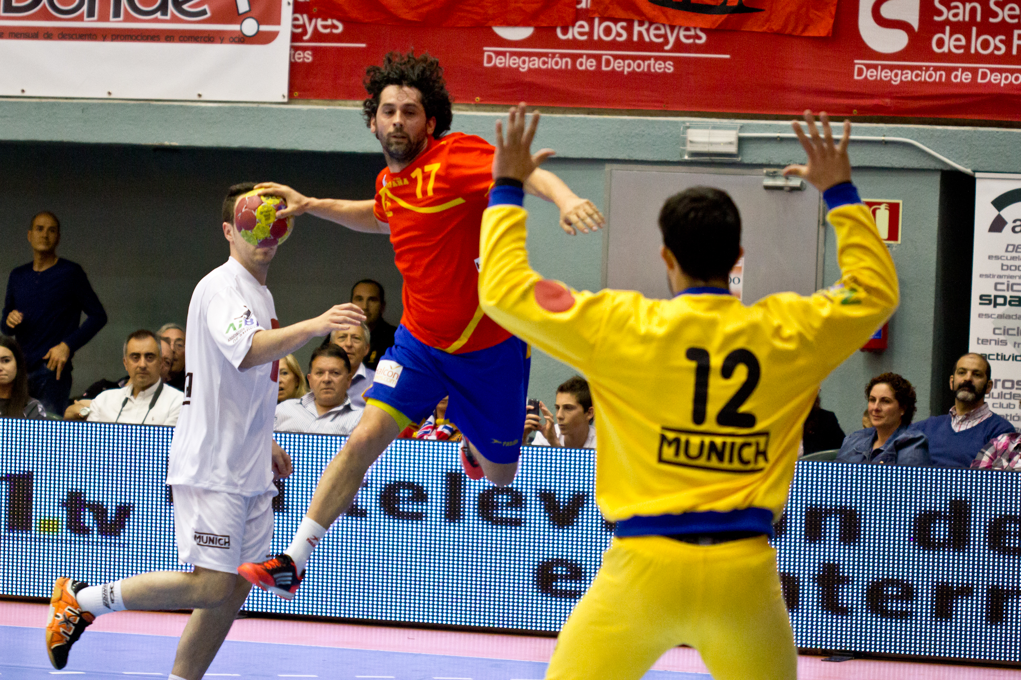 Spain Handball All Star Game 2013, in San Sebastián de los Reyes, Madrid, Spain.